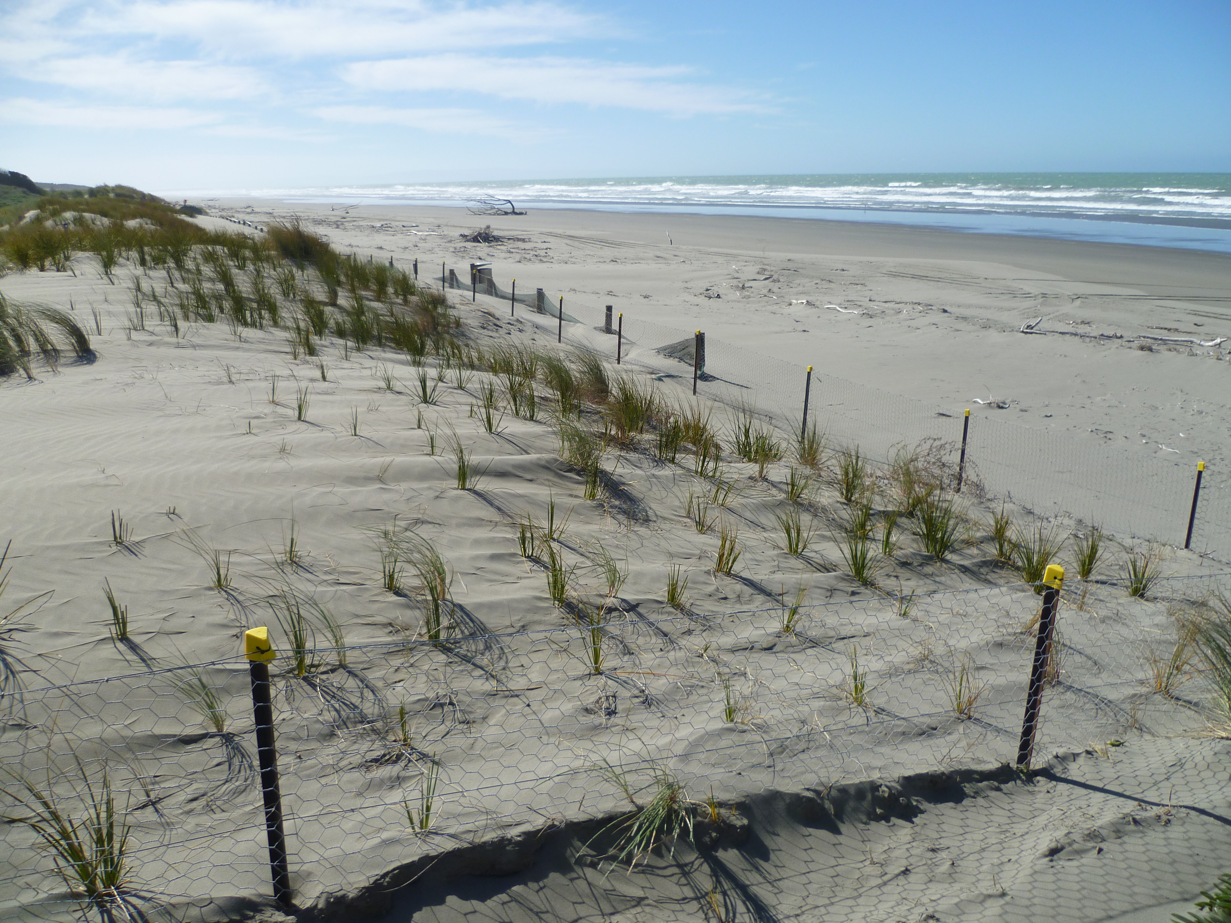 Sand Dune restoration work in progress at Spencer Park Beach, Christchurch, New Zealand